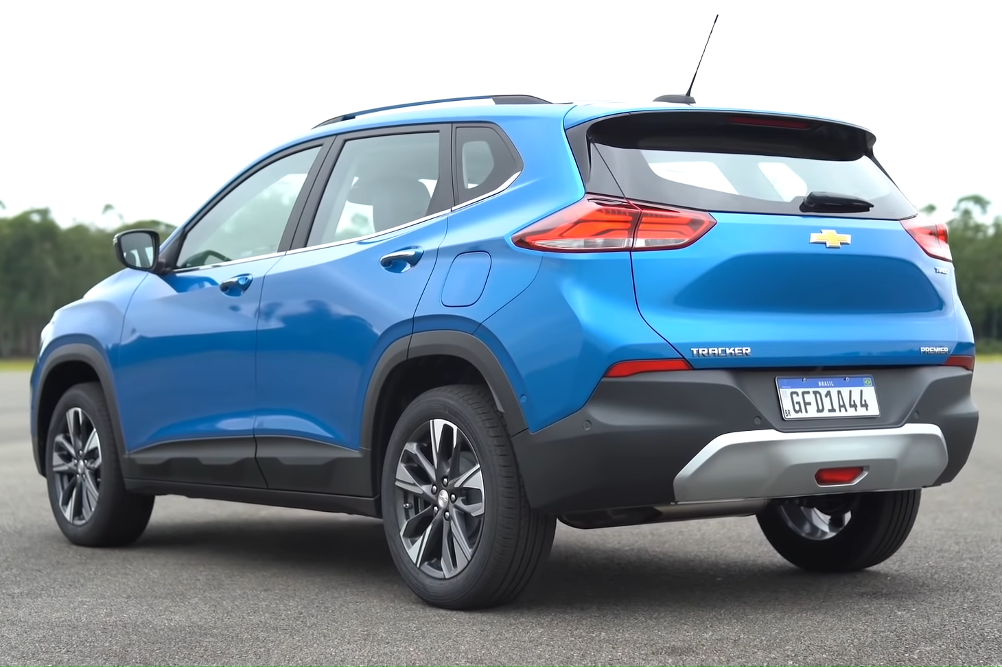 Chevrolet Tracker 2021 (rear)